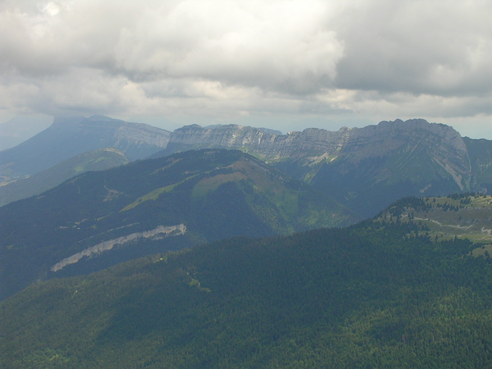 my own photograph